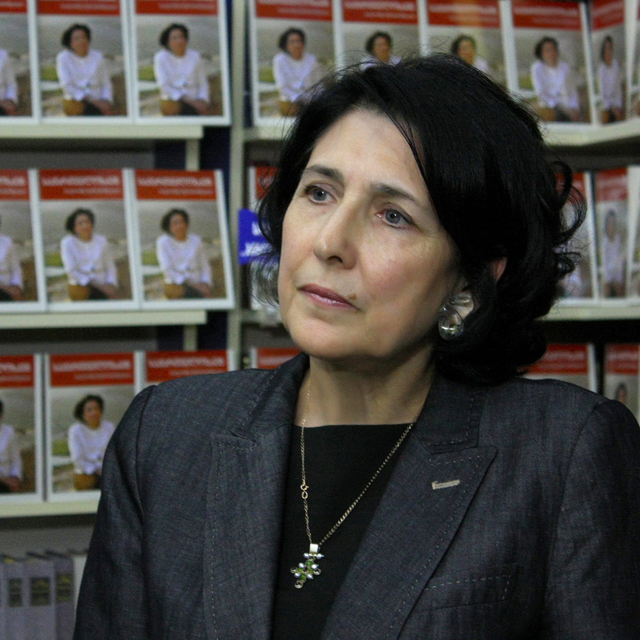 Salomé Zourabichvili at the presentation of her book.